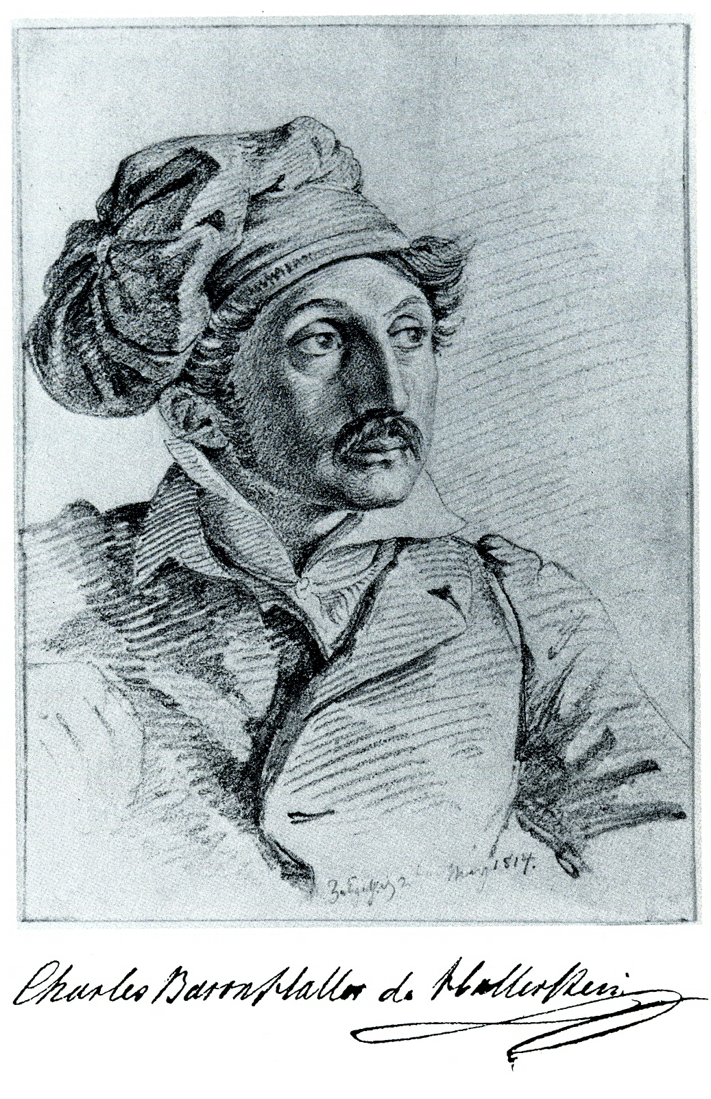 Carl Freiherr Haller von Hallerstein (1774-1817), german Architect and Archaeologist; picture by Otto Magnus von Stackelberg in 1814; Staatliche Antikensammlungen und Glyptothek Munich, Inv.-Nr. 14.016,2